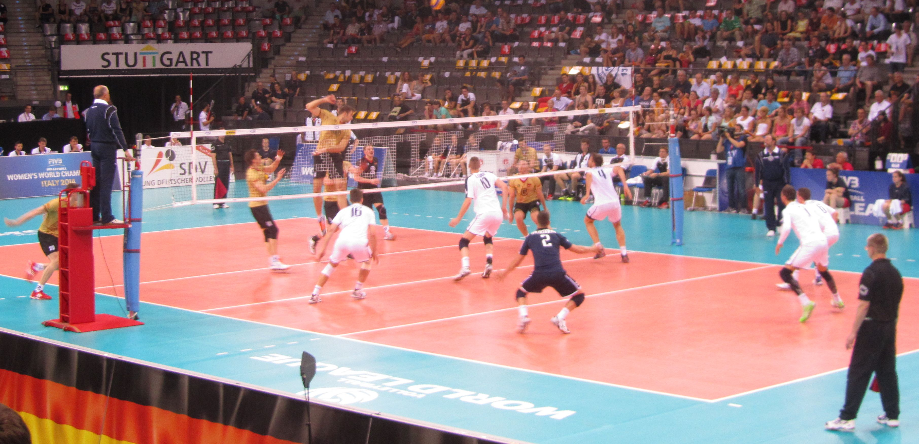 scene from the FIVB World League match Germany vs. France 2014 in Stuttgart